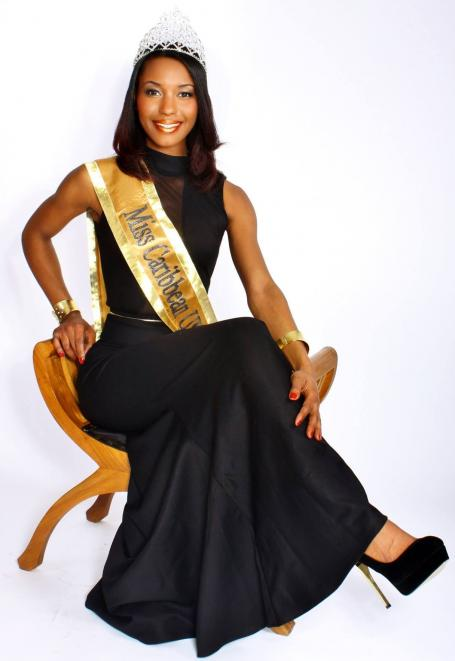 Miss Keeleigh Griffith during her reign as Miss Caribbean UK 2014 - the first titleholder of the pageant.